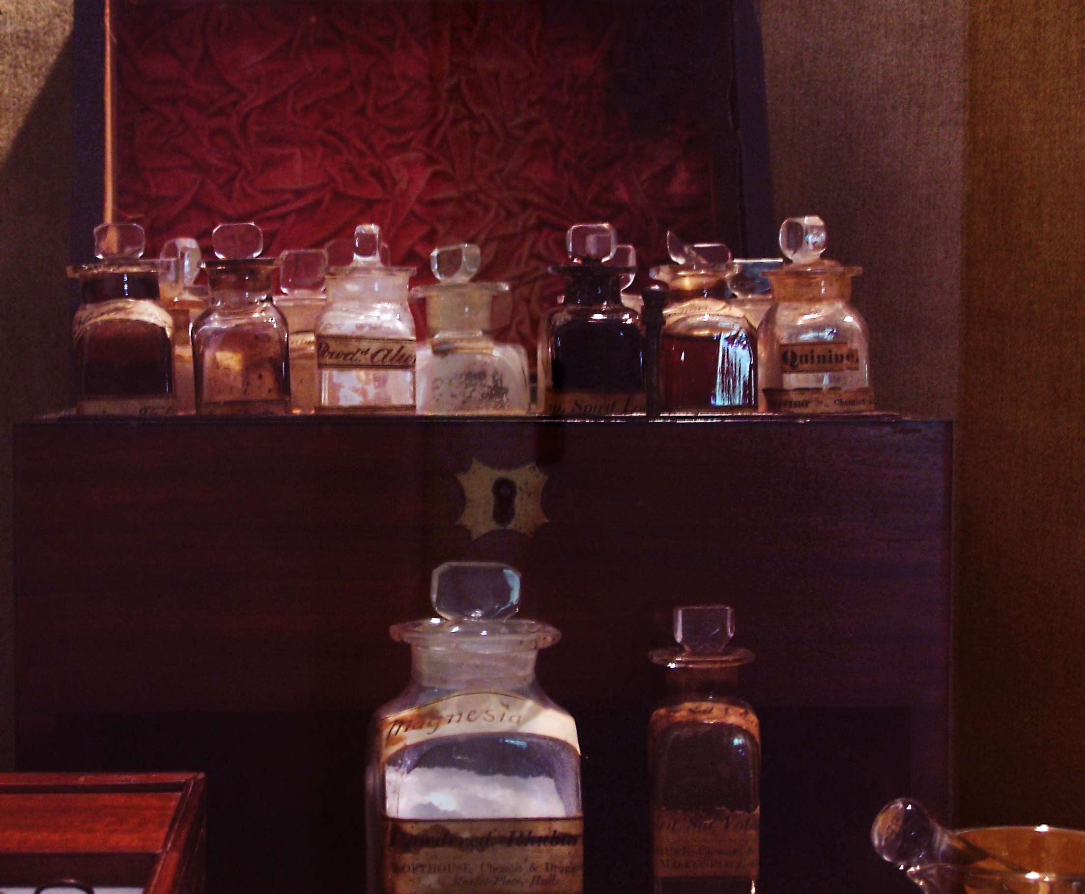 Original medicine chest (portable medicine cabinet, traveling cabinet) at Tranby House, Australia